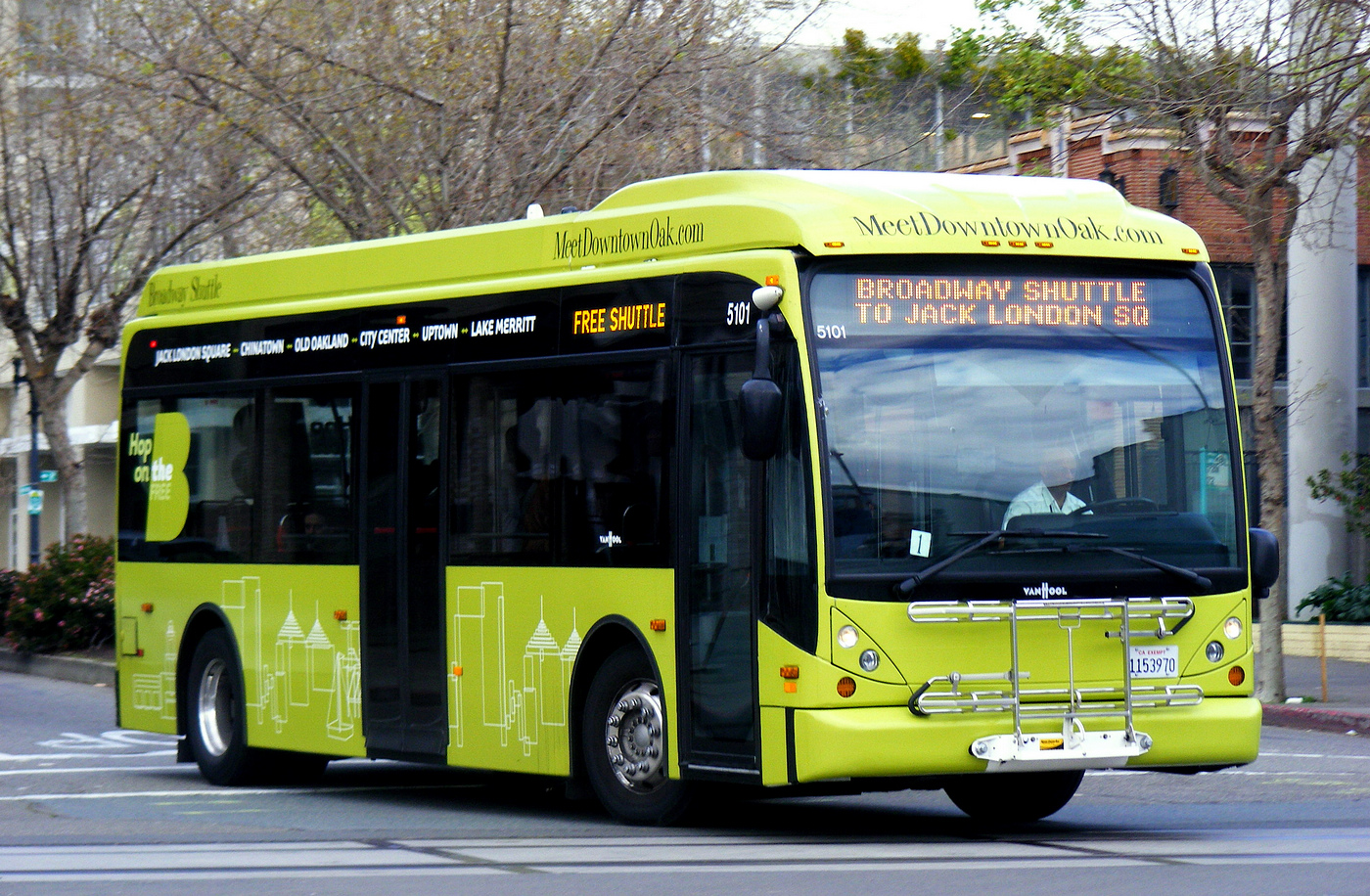 AC TRANSIT 5101 runs on Broadway Shuttle at Oakland Jack London square